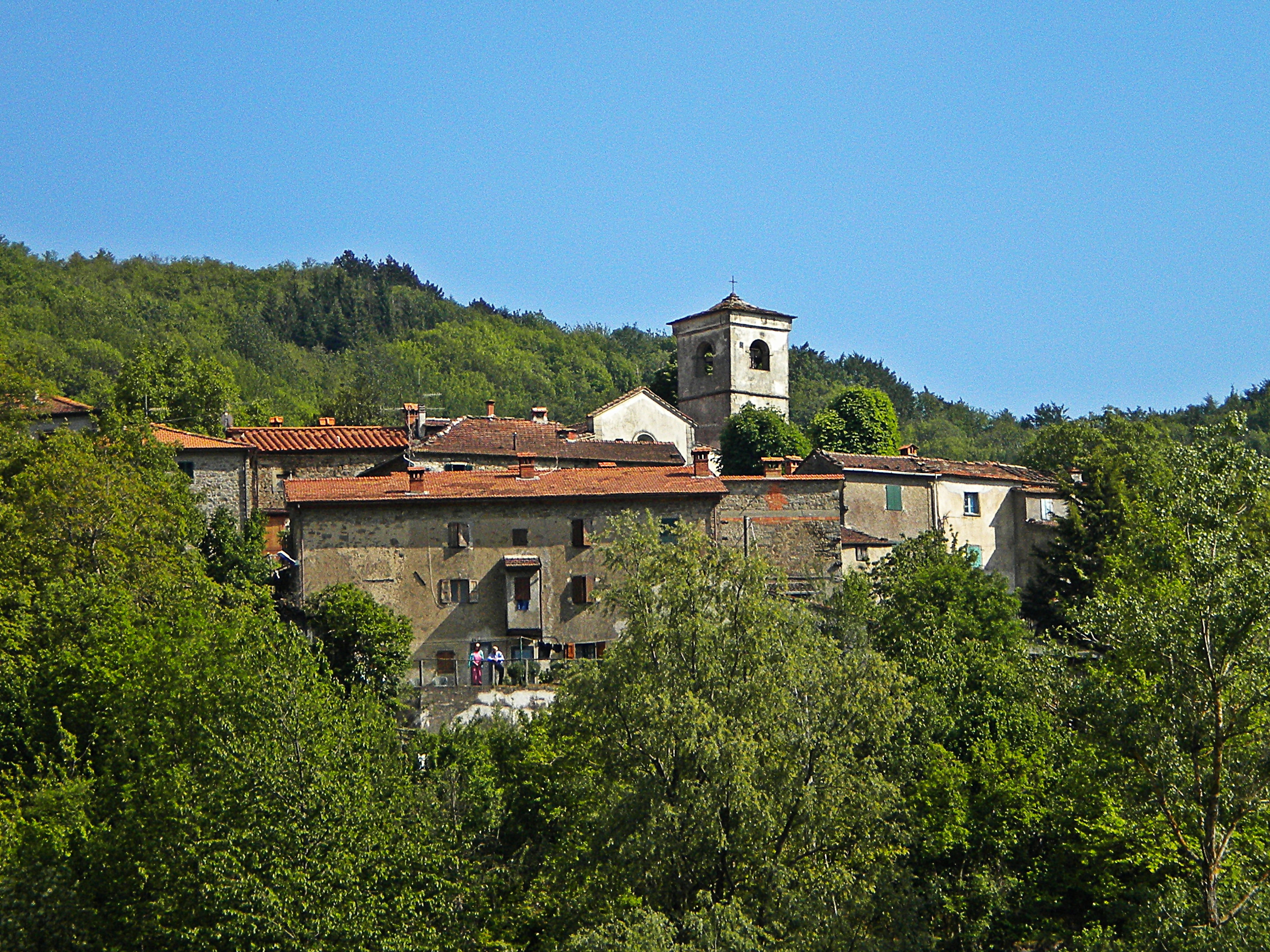 the High part of Fossato wuth San lorenzo church